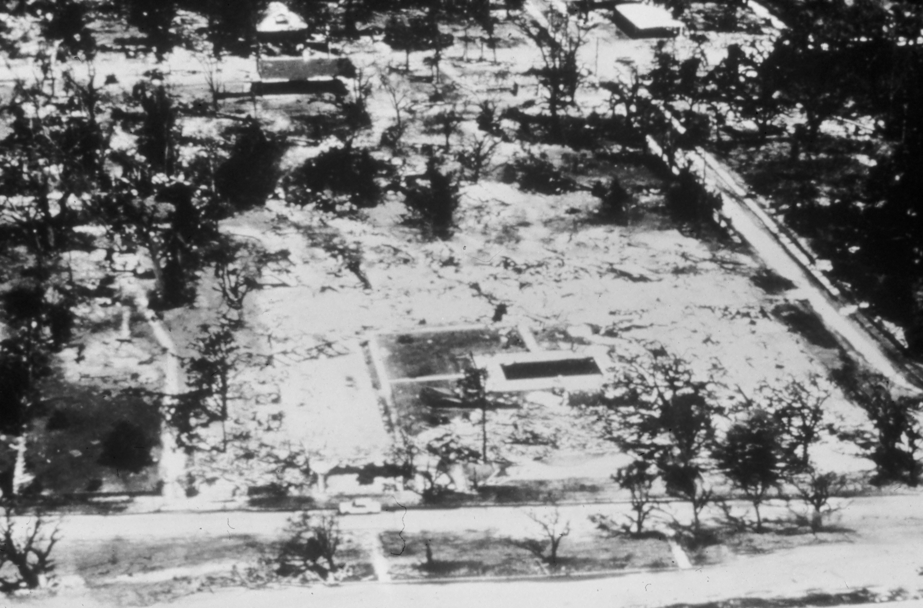 Richeliu Apartments after Hurricane Camille. The site was the location of the often-publicized (though false) story of the "hurricane party" in which 30 out of 32 people having the party allegedly died here. The Richeliu Apartments were subsequently found to be poorly constructed, though it probably wouldn't have mattered, as 20 to 25 feet of storm surge devastated the area.